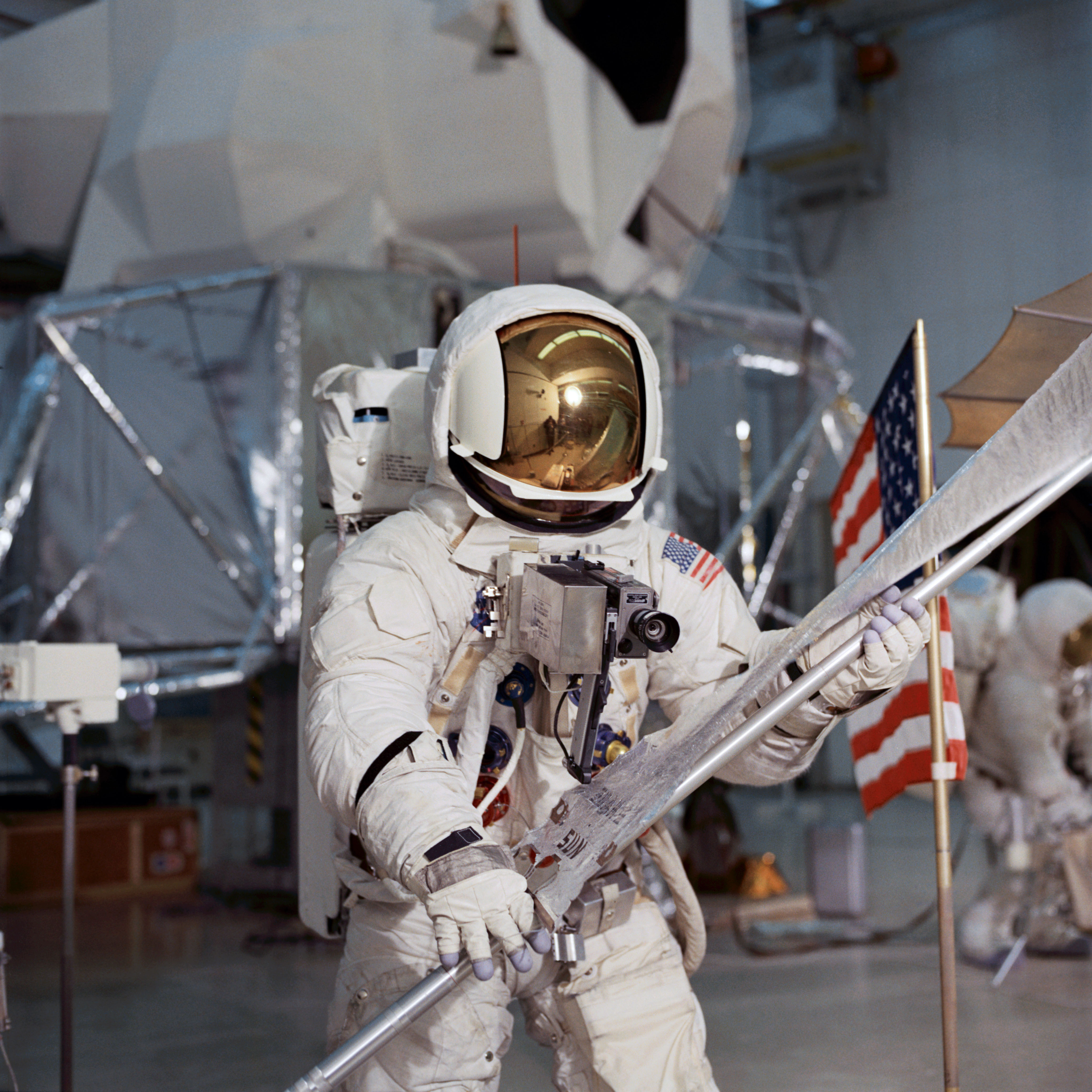 Astronaut Fred W. Haise Jr., lunar module pilot of the Apollo 13 lunar landing mission, simulates lunar surface extravehicular activity (EVA) during training exercises in the Kennedy Space Center's (KSC) Flight Crew Training Building (FCTB). Haise, wearing an Extravehicular Mobility Unit (EMU), is holding a Solar Wind Composition (SWC) experiment.